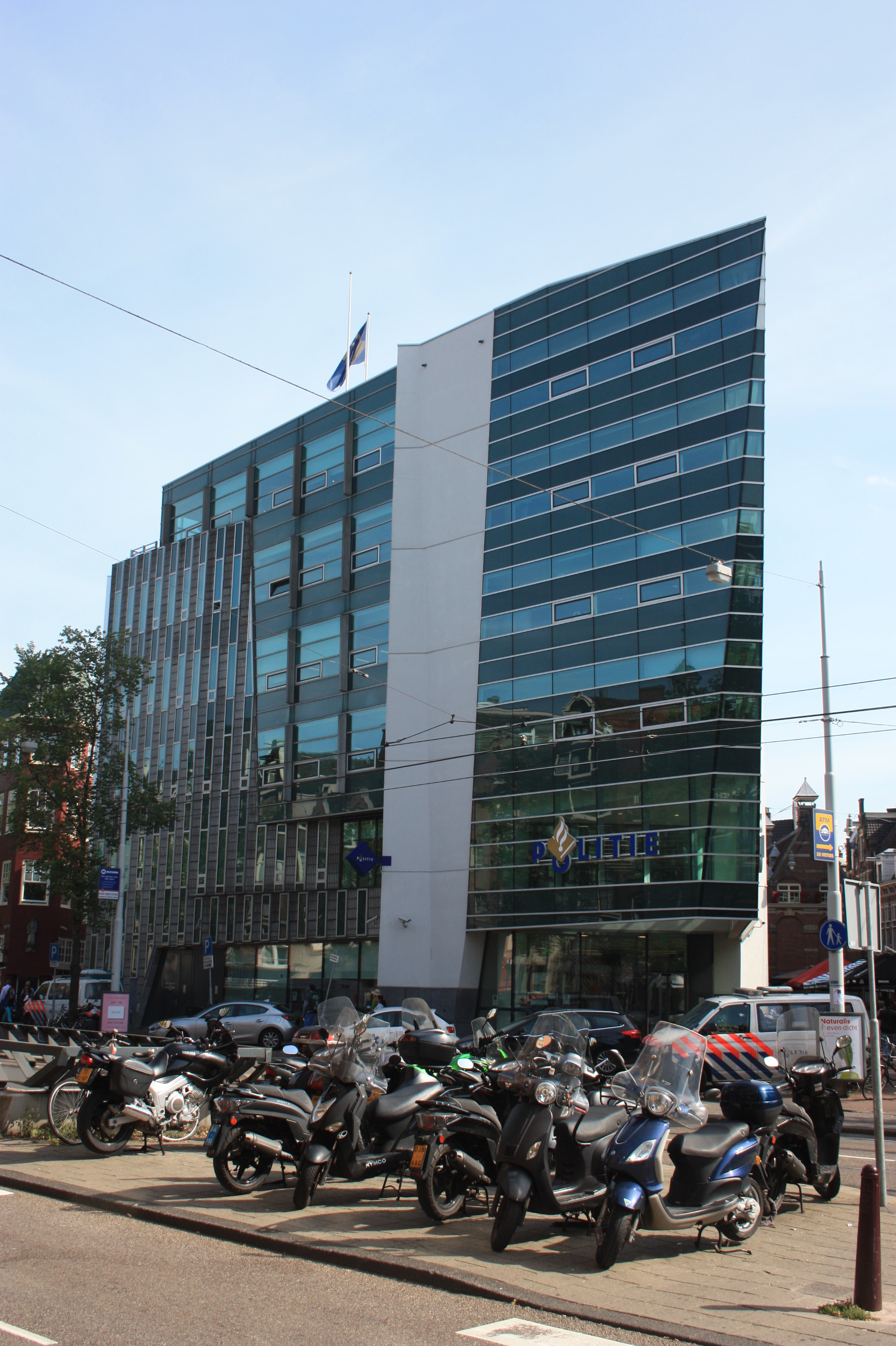 Police Headquarters, Amsterdam